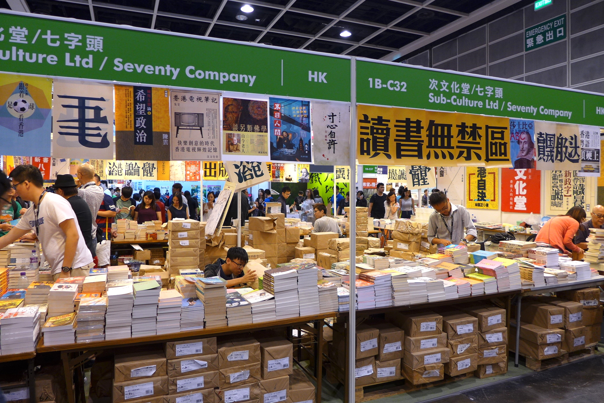 Sub-Culture Ltd Seventy Company in HK Book Fair